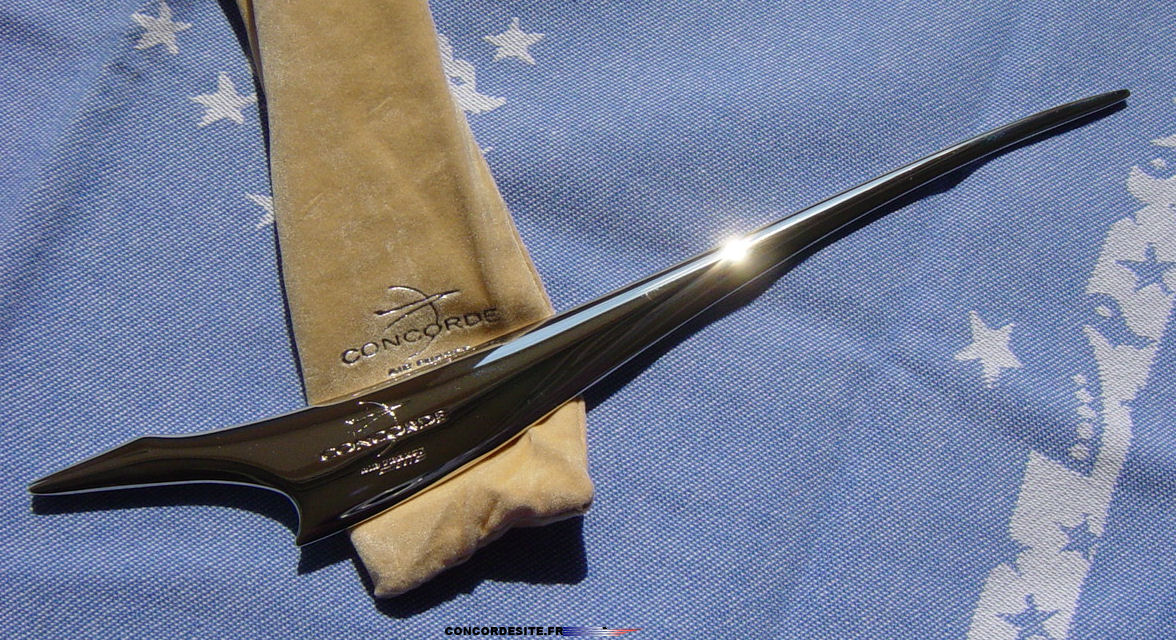 Air France CONCORDE paper cutter